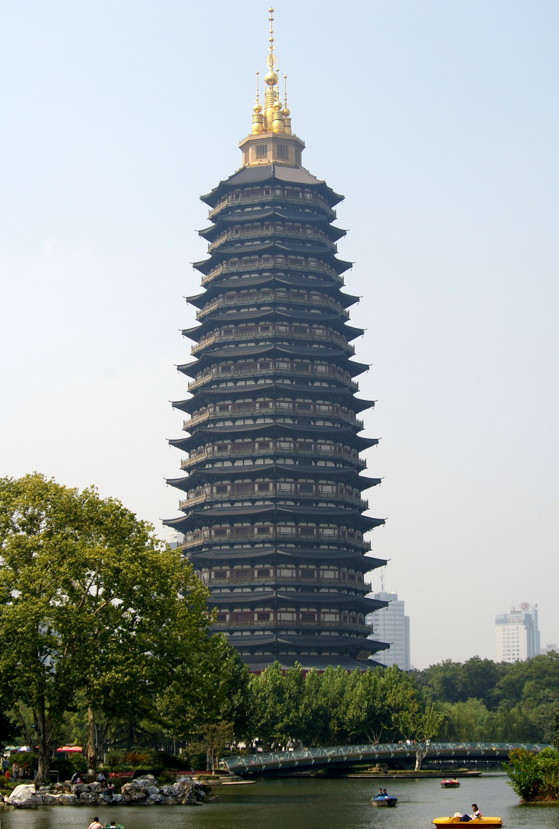 Tianning Pagoda in Changzhou